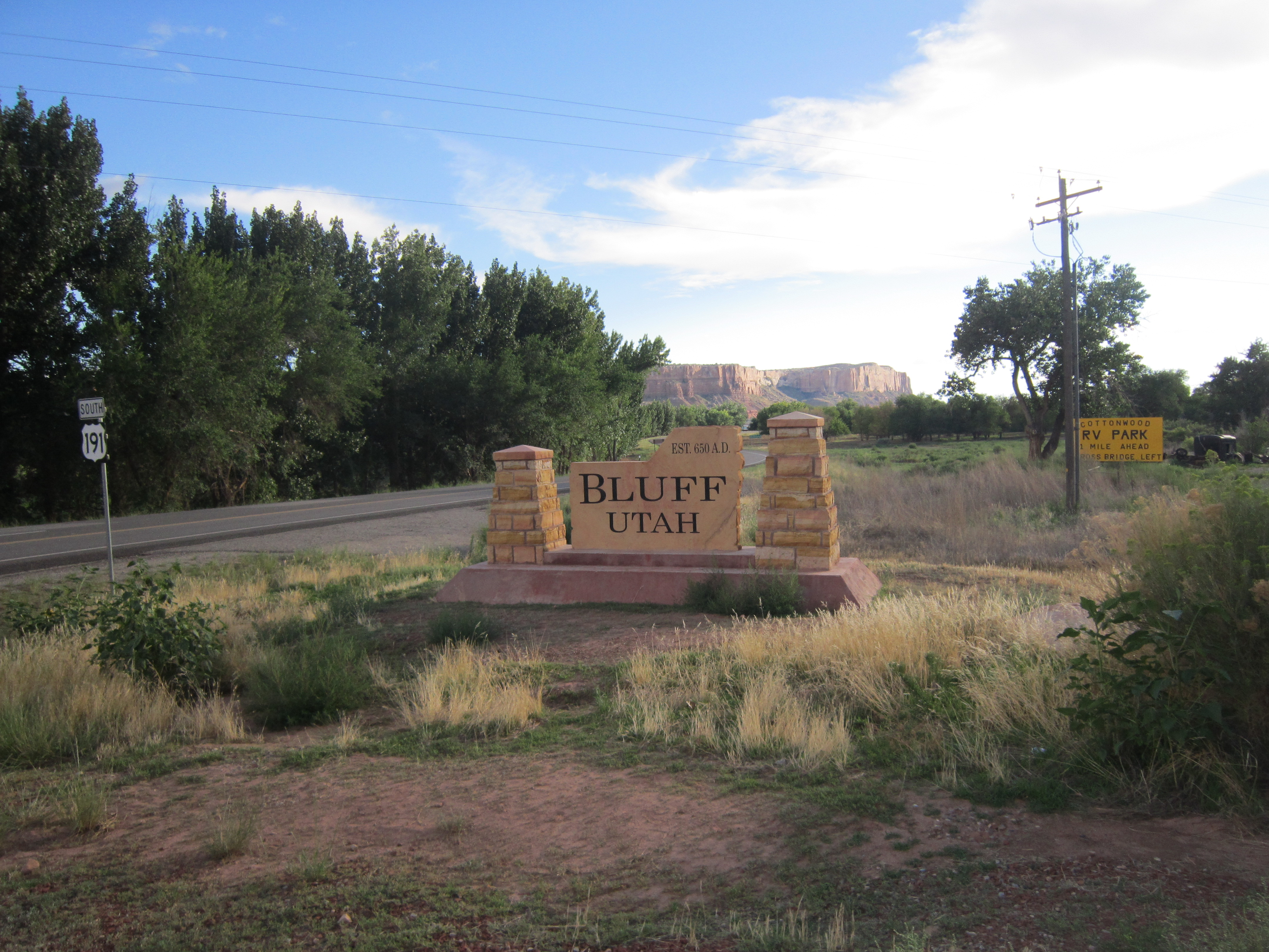 Entering the town of Bluff, Utah, 2016.